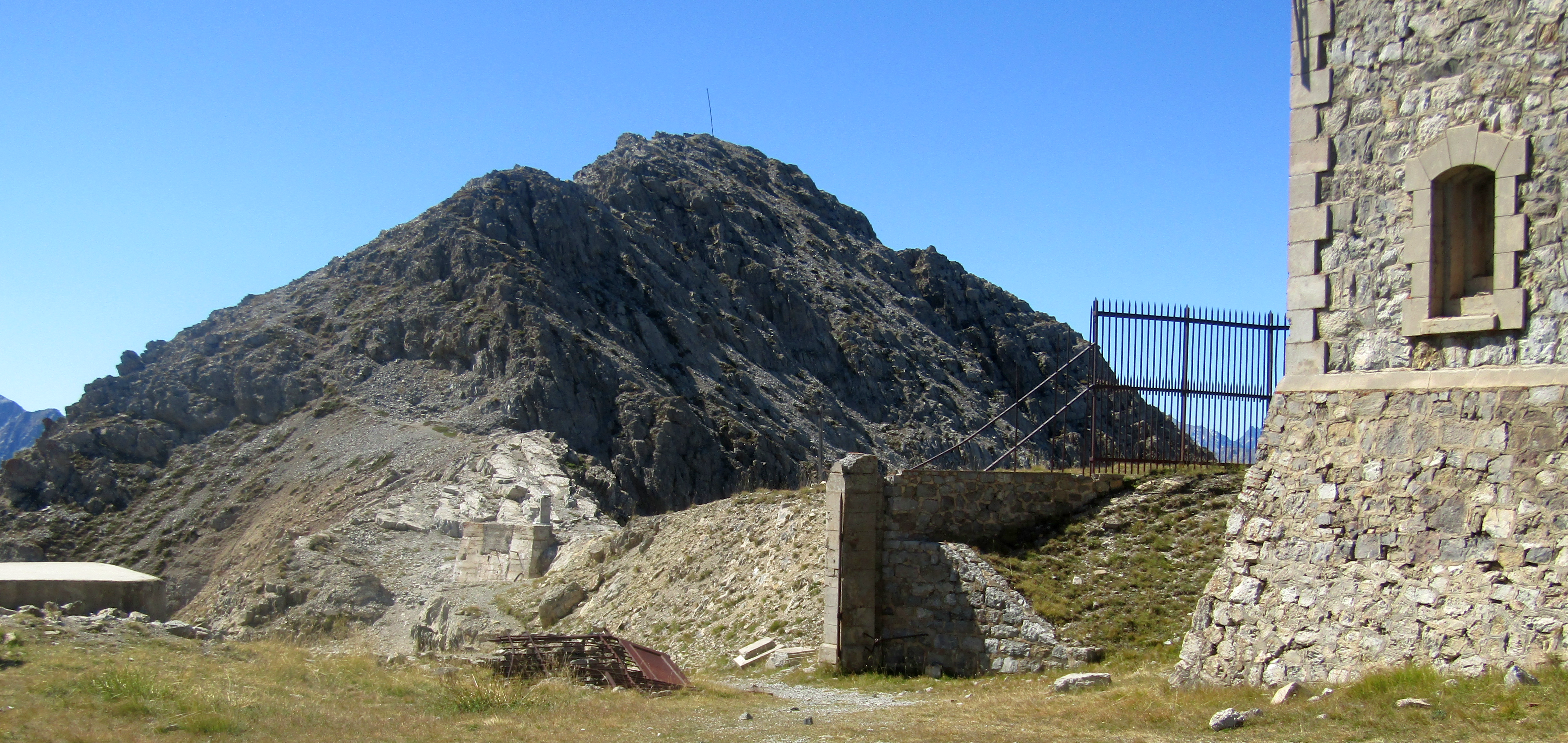 Sommet de Château Jouan (Cottian Alps, France) from Janus fortress